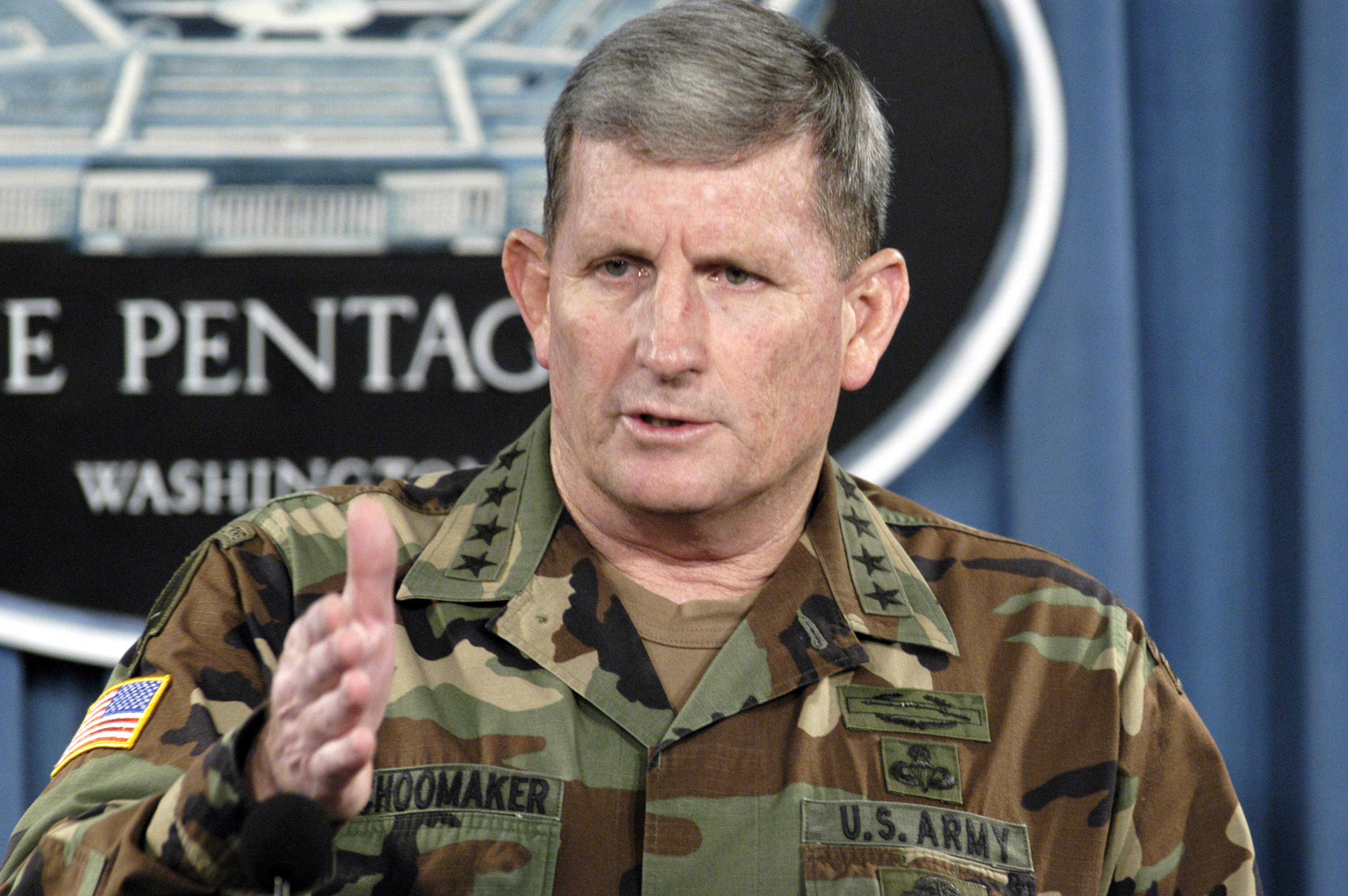 Army Chief of Staff Gen. Peter Schoomaker talks to news reporters at the Pentagon on July 26, 2004, on the current state of the U.S. Army. Schoomaker was able to report that recruiting figures are excellent as are the numbers for retention of trained and experienced soldiers from all ranks. Shoemaker attributes this to the fact that today's young people recognize the serious threat to the nation posed by terrorism and are willing to come forward in defense of our ideals.